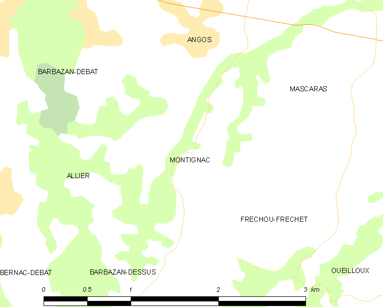 Map of French municipality